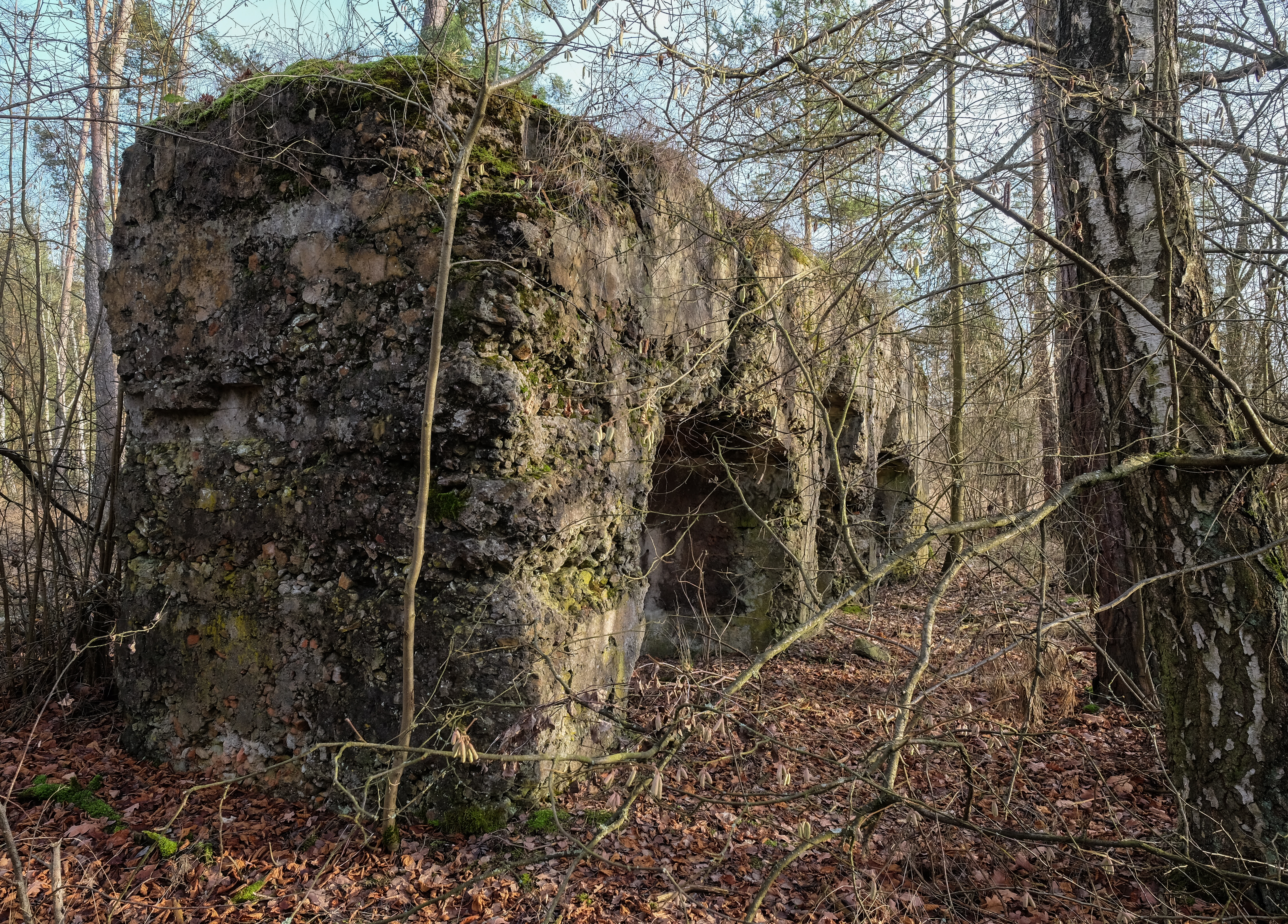 Ruins of processing plant foundation of the former lead mine Bleierzgrube Vesuv, Freihung-Elbart, district Amberg-Sulzbach, Bavaria, Germany